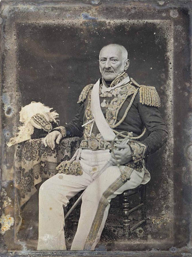 Argentine general Enrique Martínez dressed in his militar uniform.